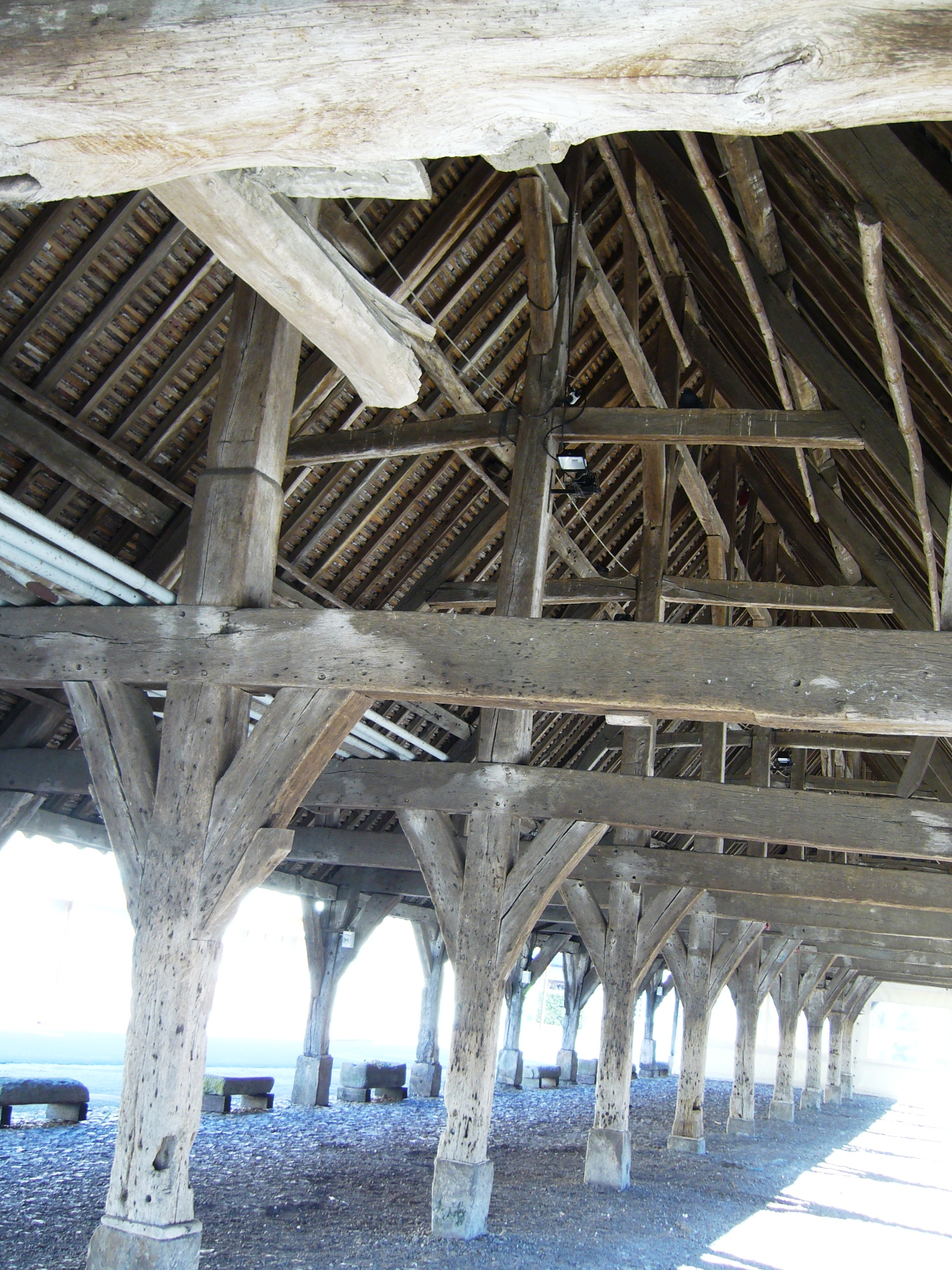 Frameworks of the La Ferrière-sur-Risle Market Hall